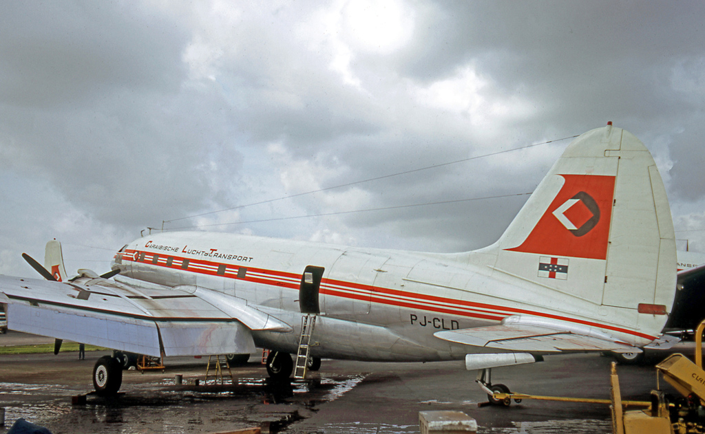 Curtiss C-46A PJ-CLD of Caraibische Lucht Transport at Miami International in 1970